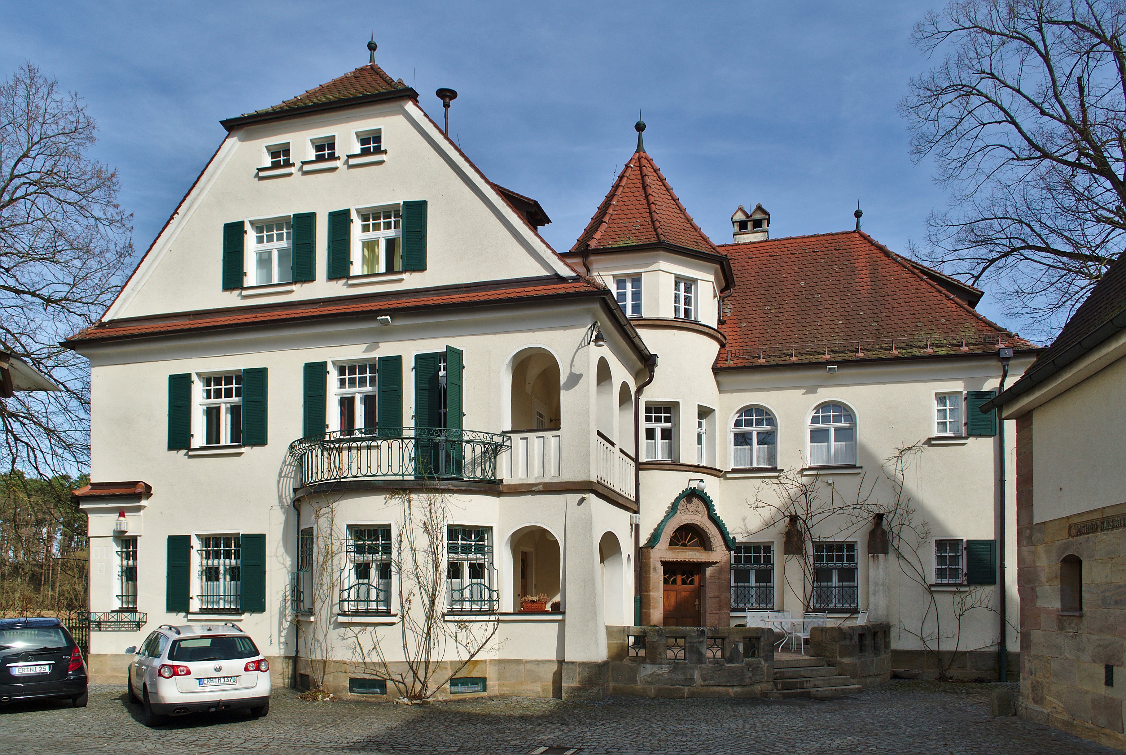 Minderleinsmühle bei Kalchreuth, Jugendstilwohnhaus This is a photograph of an architectural monument.